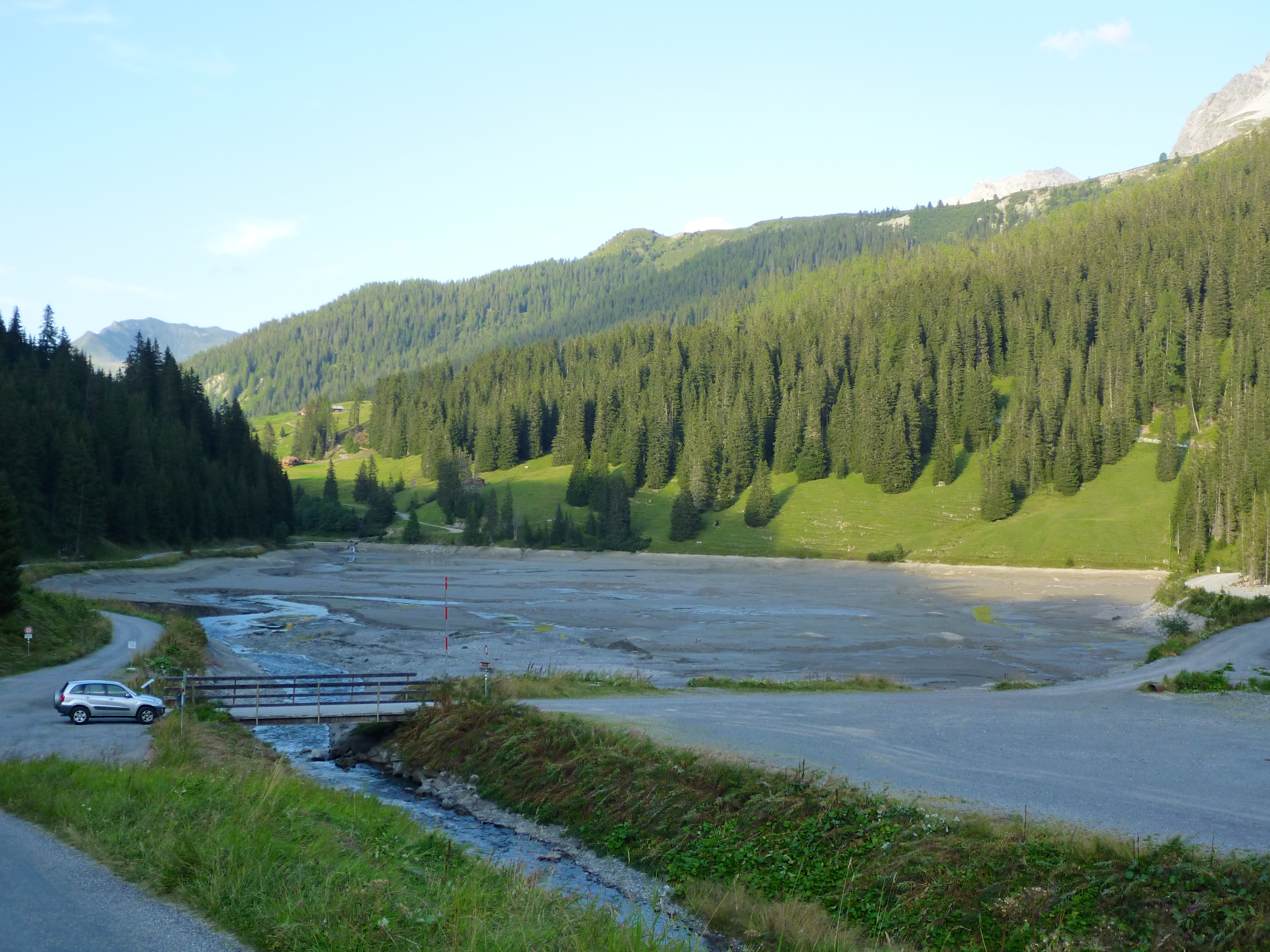 empty reservoir "Stausee Arosa", Switzerland